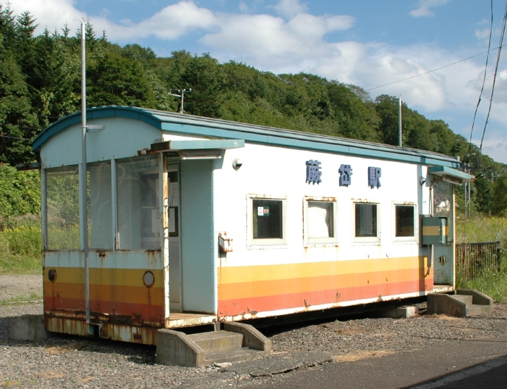 Warabitai Station on the Hakodate Main Line